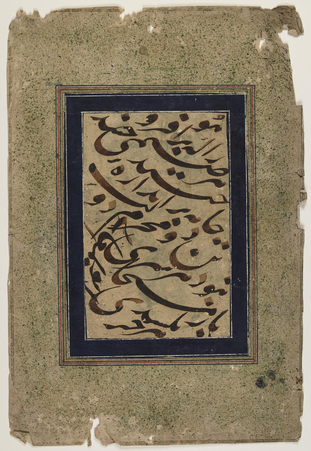 This calligraphic fragment includes several verses from Nizami's (d. 614/1218) "Divan" (Compendium of Poems). Script: nasta'liq. The composition, which recalls a number of Safavid calligraphic exercises (siyah mashq) in its formal make-up and calligraphic style, must have been executed during the 16th or 17th century.